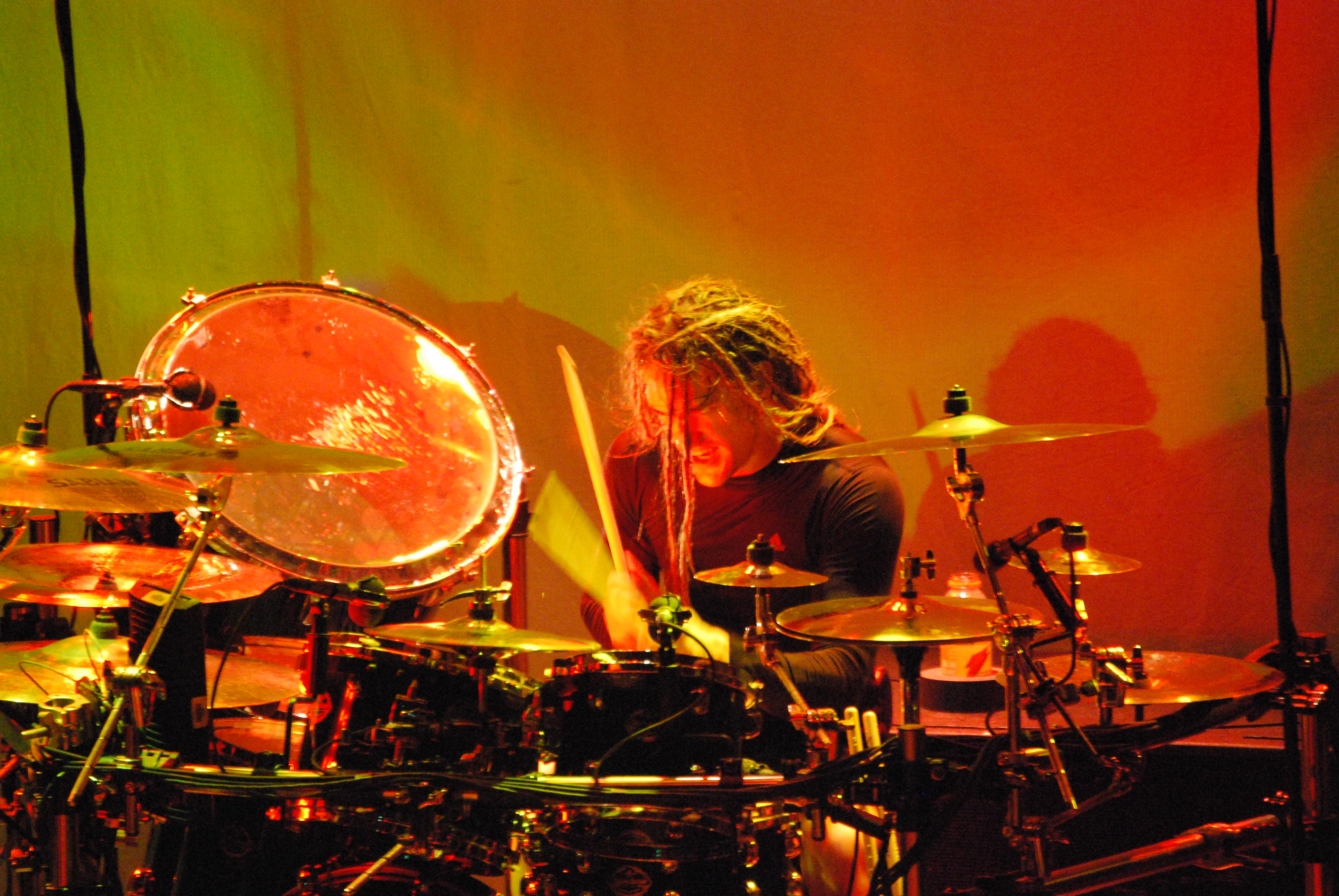 Nick Oshiro during the Cannibal Killers tour in June 2007